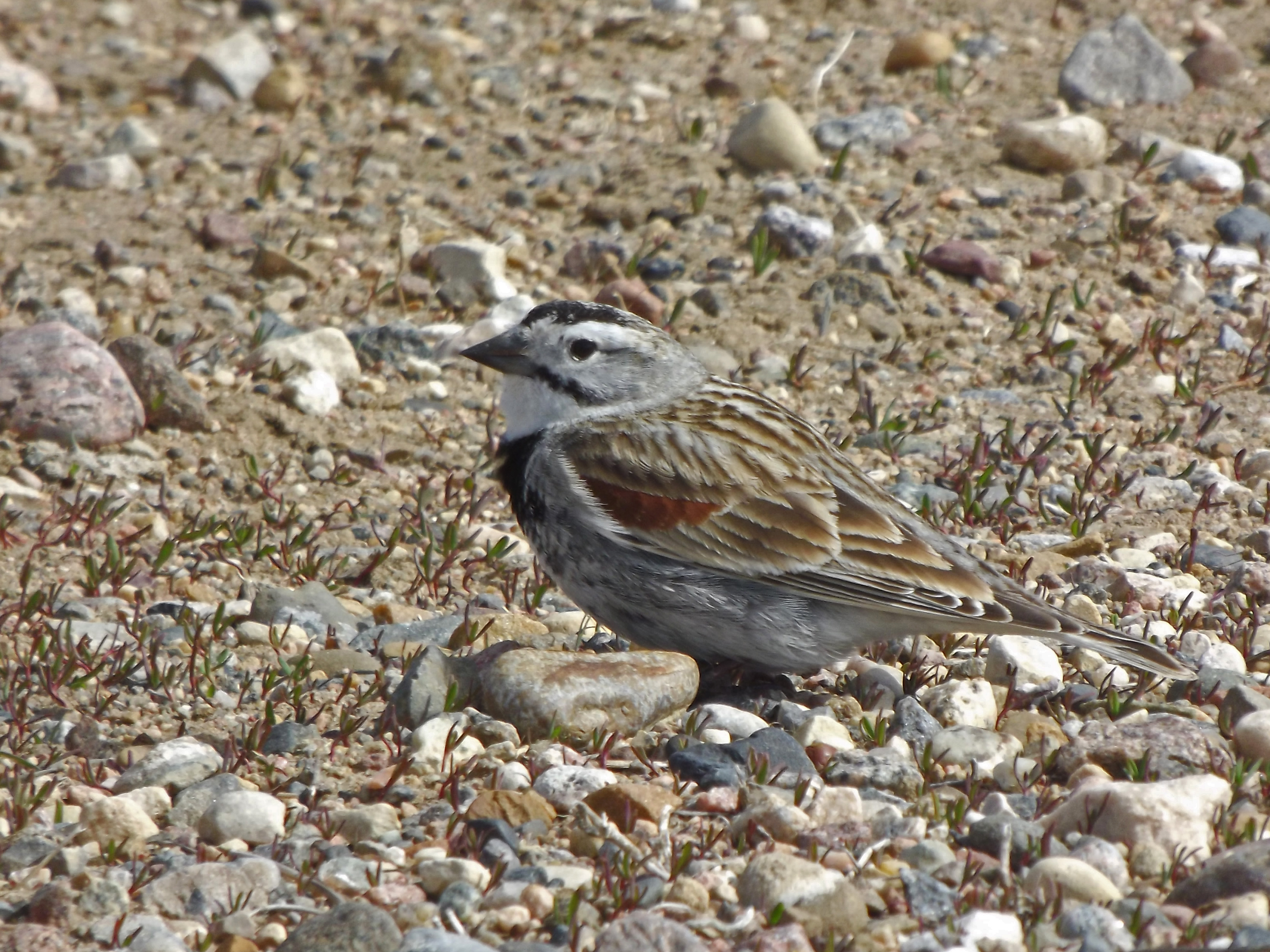 Photo of a McCown's Longspur taken near Pakowki Lake, Alberta, Canada.